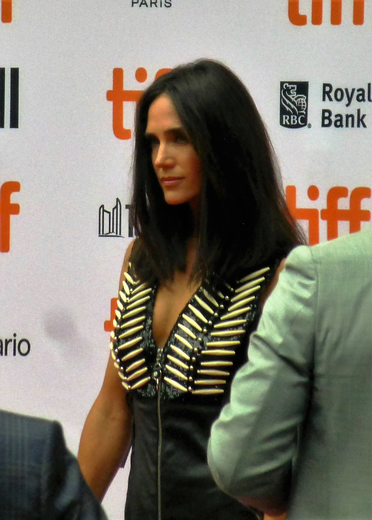 Jennifer Connelly at the premiere of American Pastoral, 2016 Toronto Film Festival